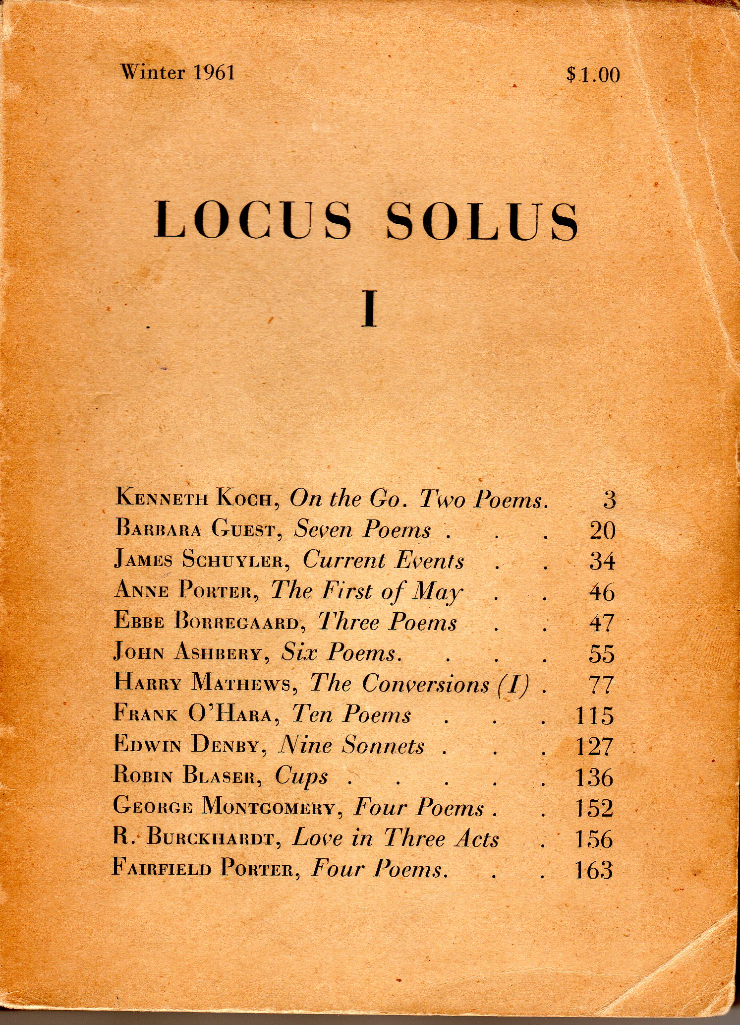 The cover of the Winter 1961 issue of the literary magazine Locus Solus (No. 1).